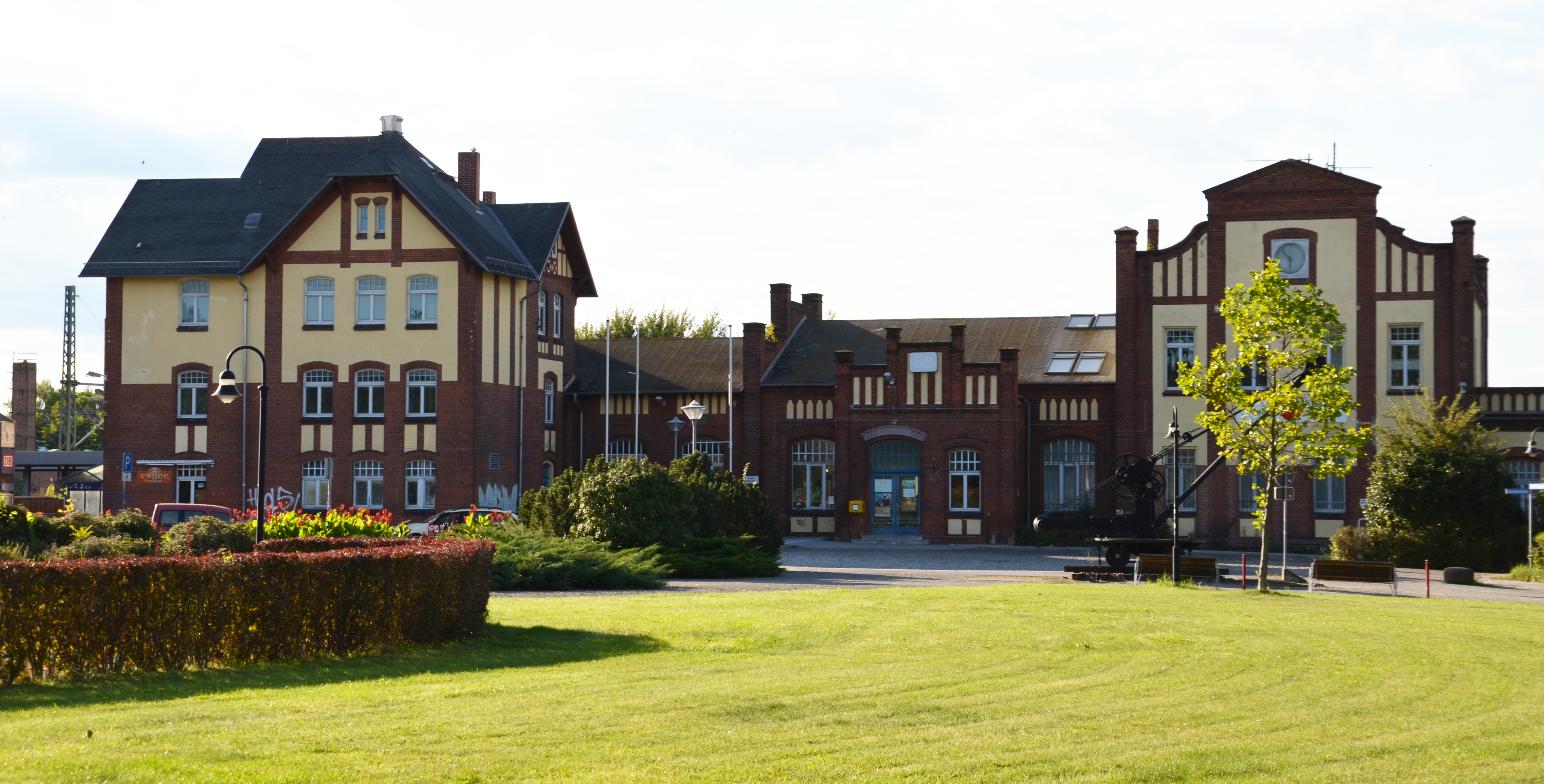 railroad station of Burg in the near of Magdeburg (Saxony-Anhalt)